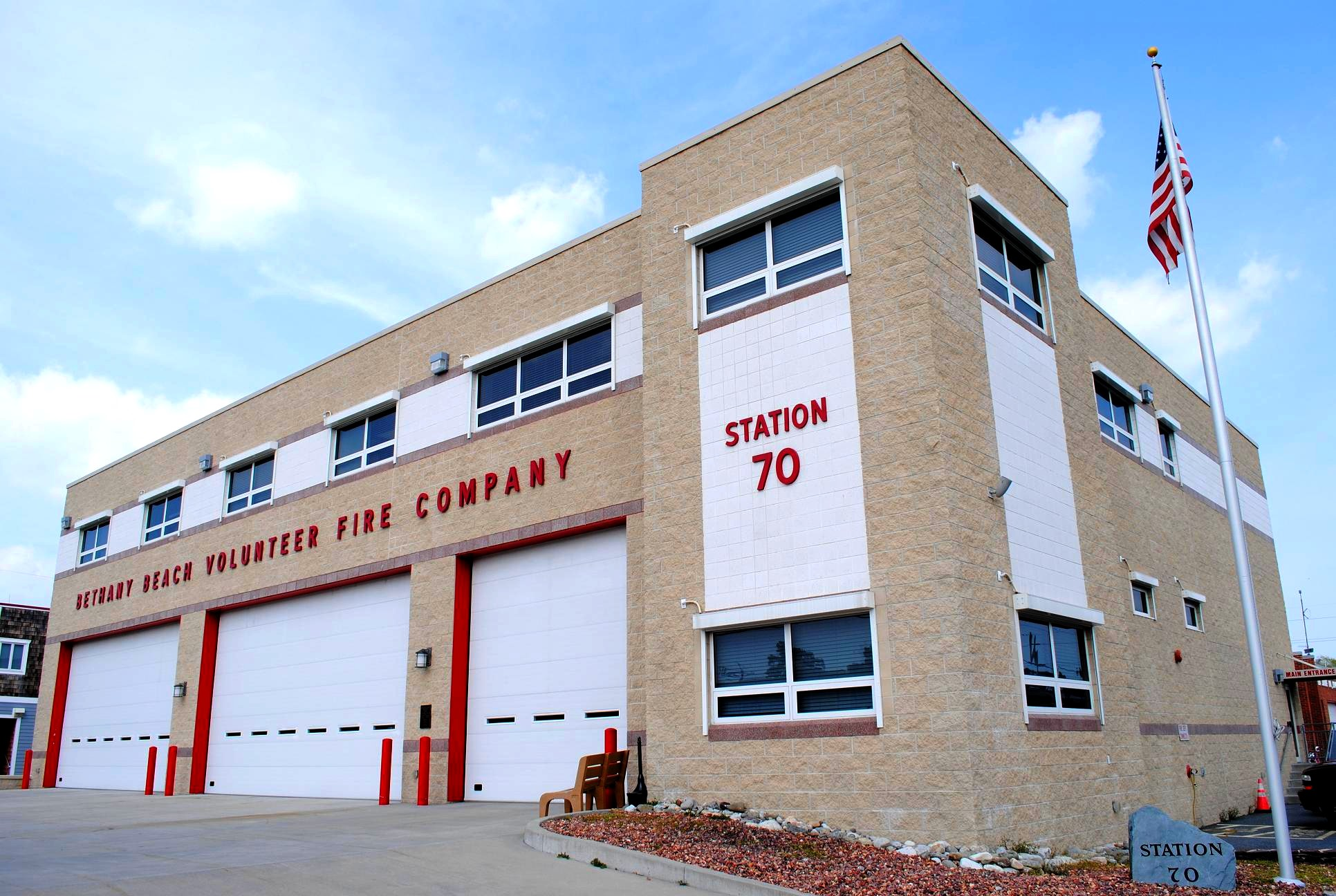 The front of Bethany Beach Vol Fire Co, Station 70 facing toward route 1 - Coastal Highway. The old Fire station faced Hollywood St.